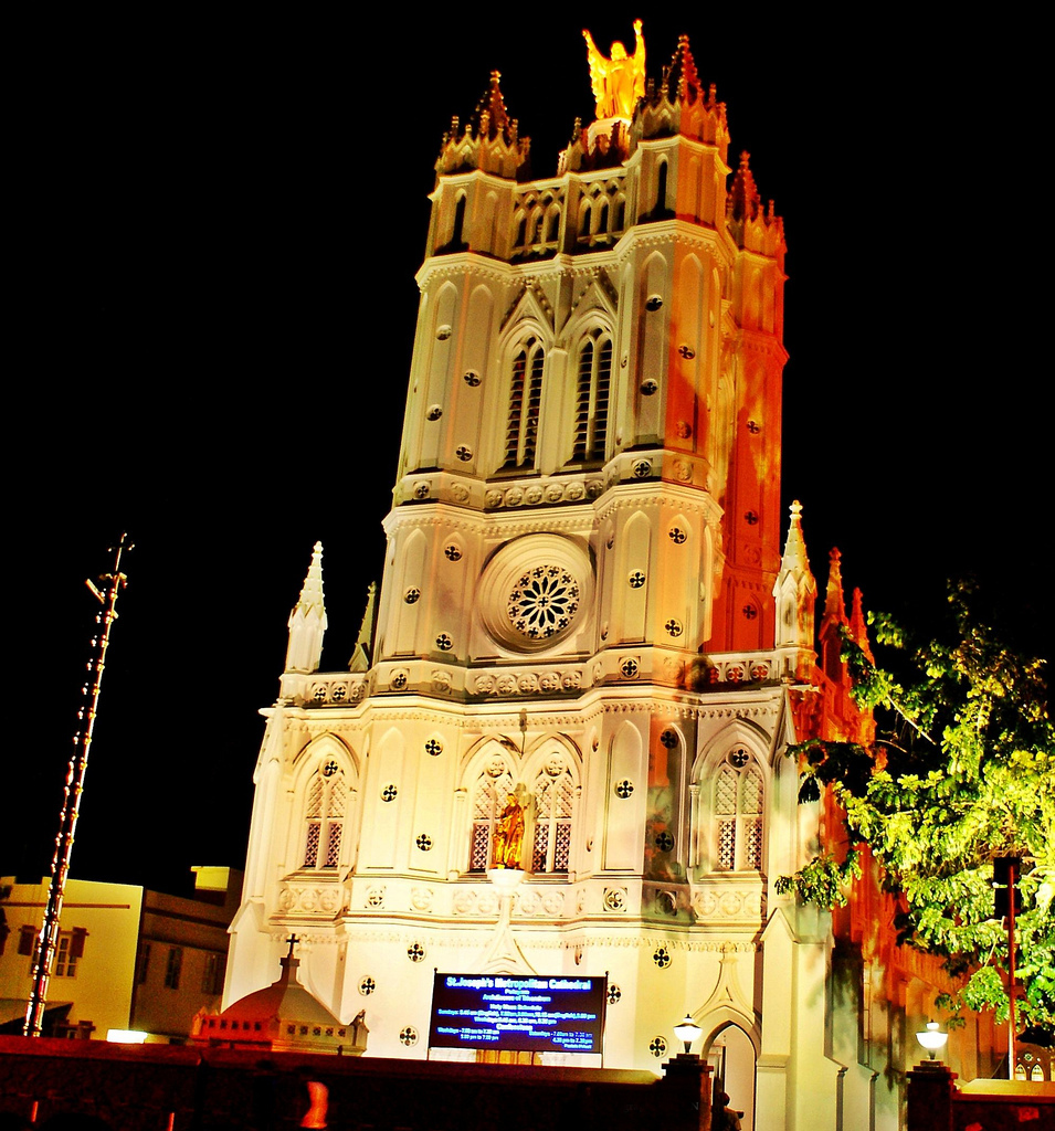 St. Joseph's Metropolitan Cathedral, Trivandrum by Carol Nettar